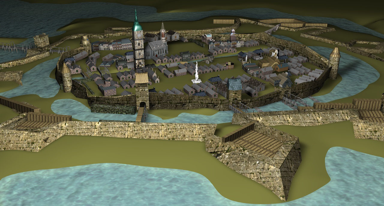 3D model of Ungarisch Hradisch, Uherske Hradiste, medieval times